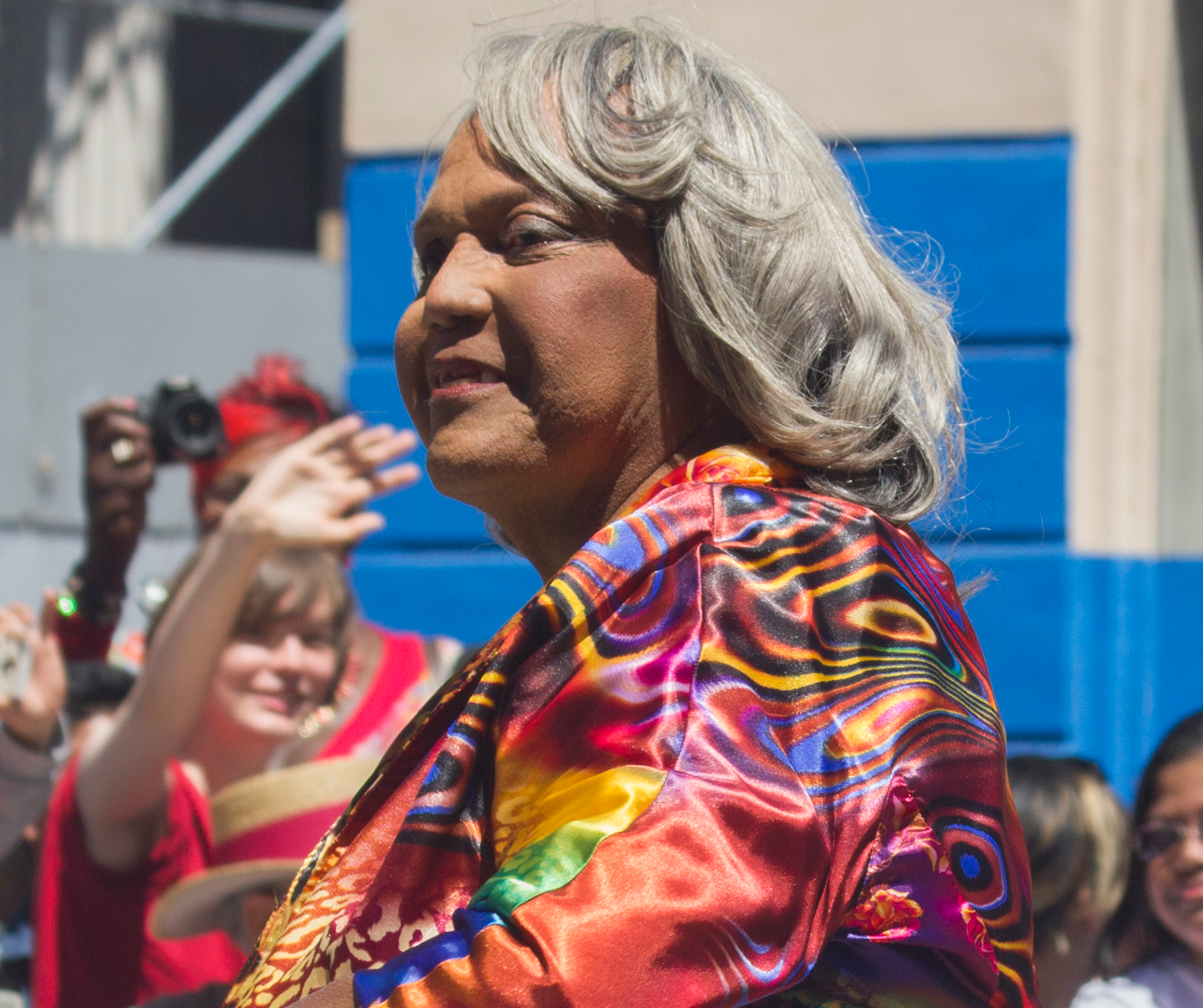 Cropped version of [1]